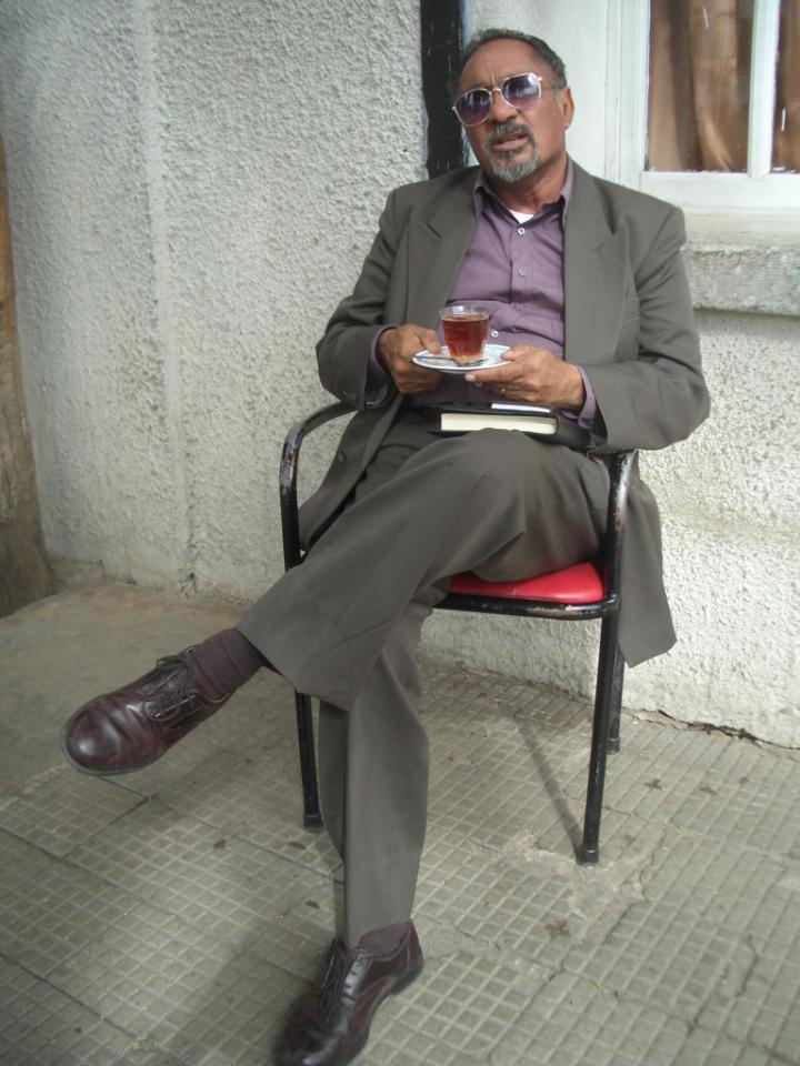 Tesfaye Gesesse, Ethiopian Director, Theatre, Hager Fikir Theatre, Hager Fikir Theater, Addis Ababa, Addis Abeba, Äthiopien